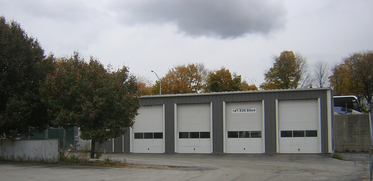 The site at 106 Penn Street, Quincy, Massachusetts, where the Quincy Water Company Pumping Station stood.